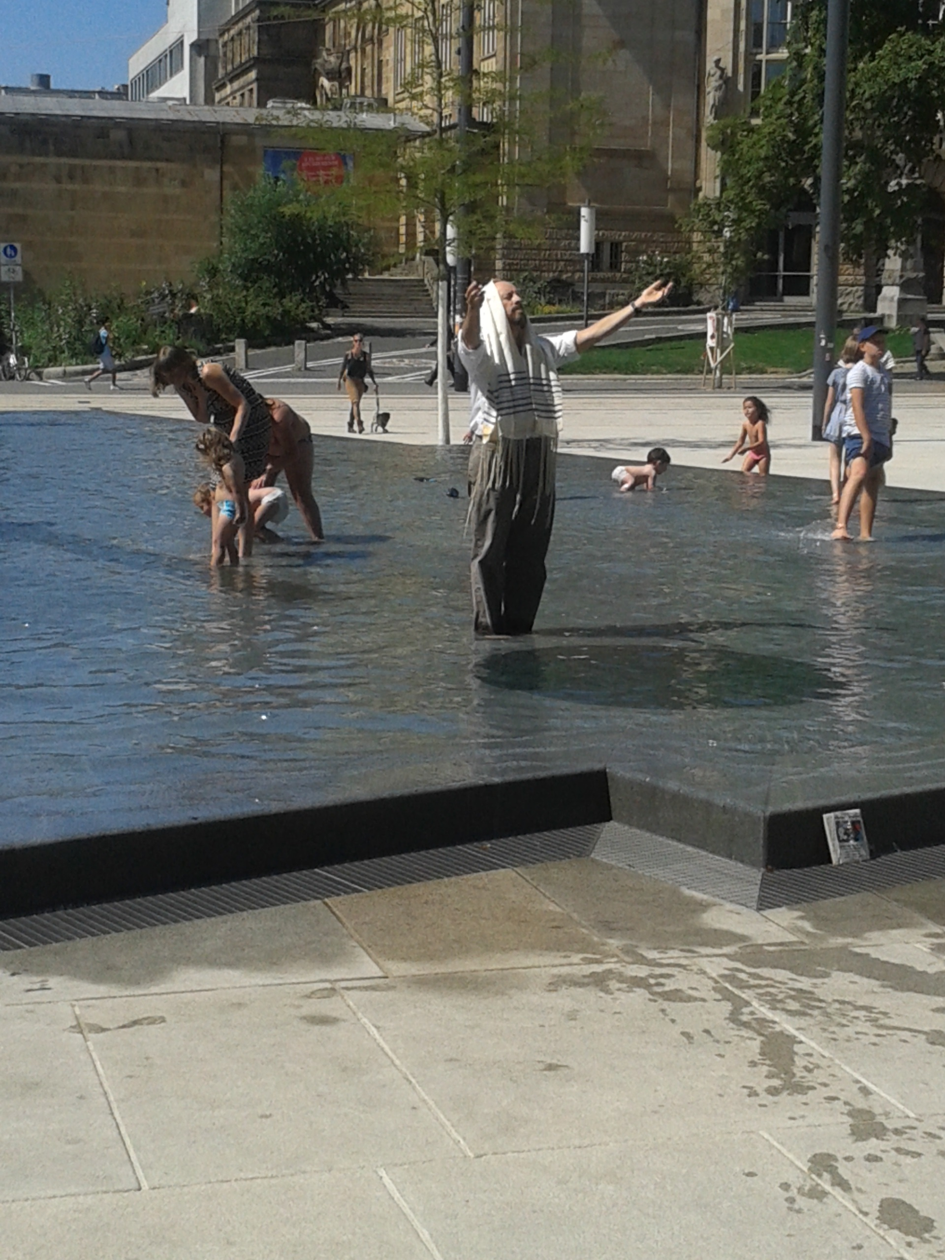 Yehuda Hyman: A Jew in the Pool, Platz der alten Synagoge, Freiburg, 23. August 2017